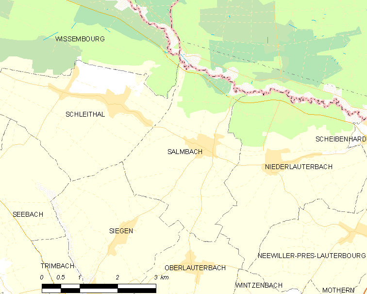 Map of French municipality